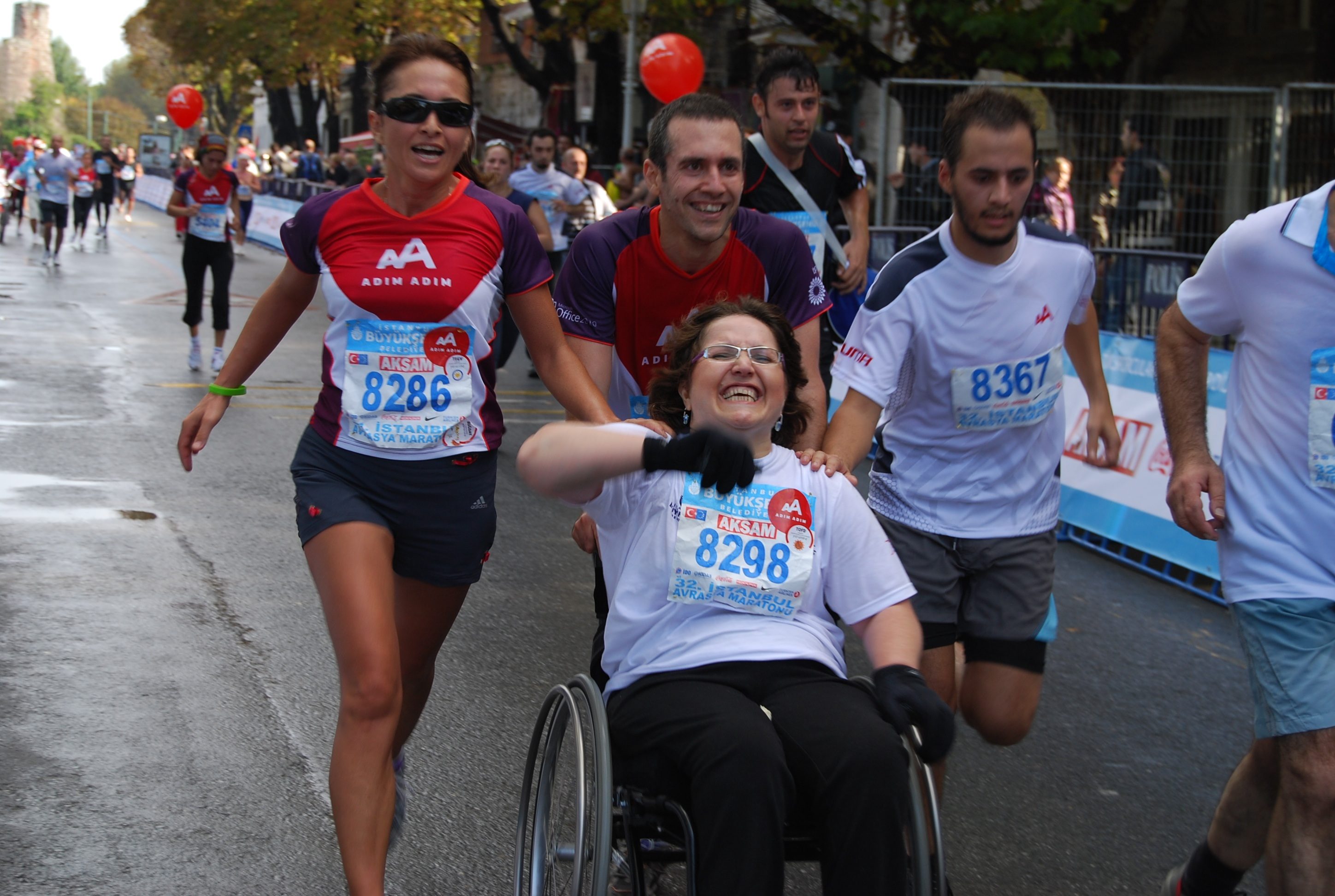 Adım Adım volunteers on wheelchair and foot running Istanbul Eurasian Marathon in order to draw public attention to the problems of the disabled and raise awareness. October 2010.